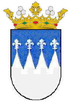 Arms of Marchese Serlupi before augmentation